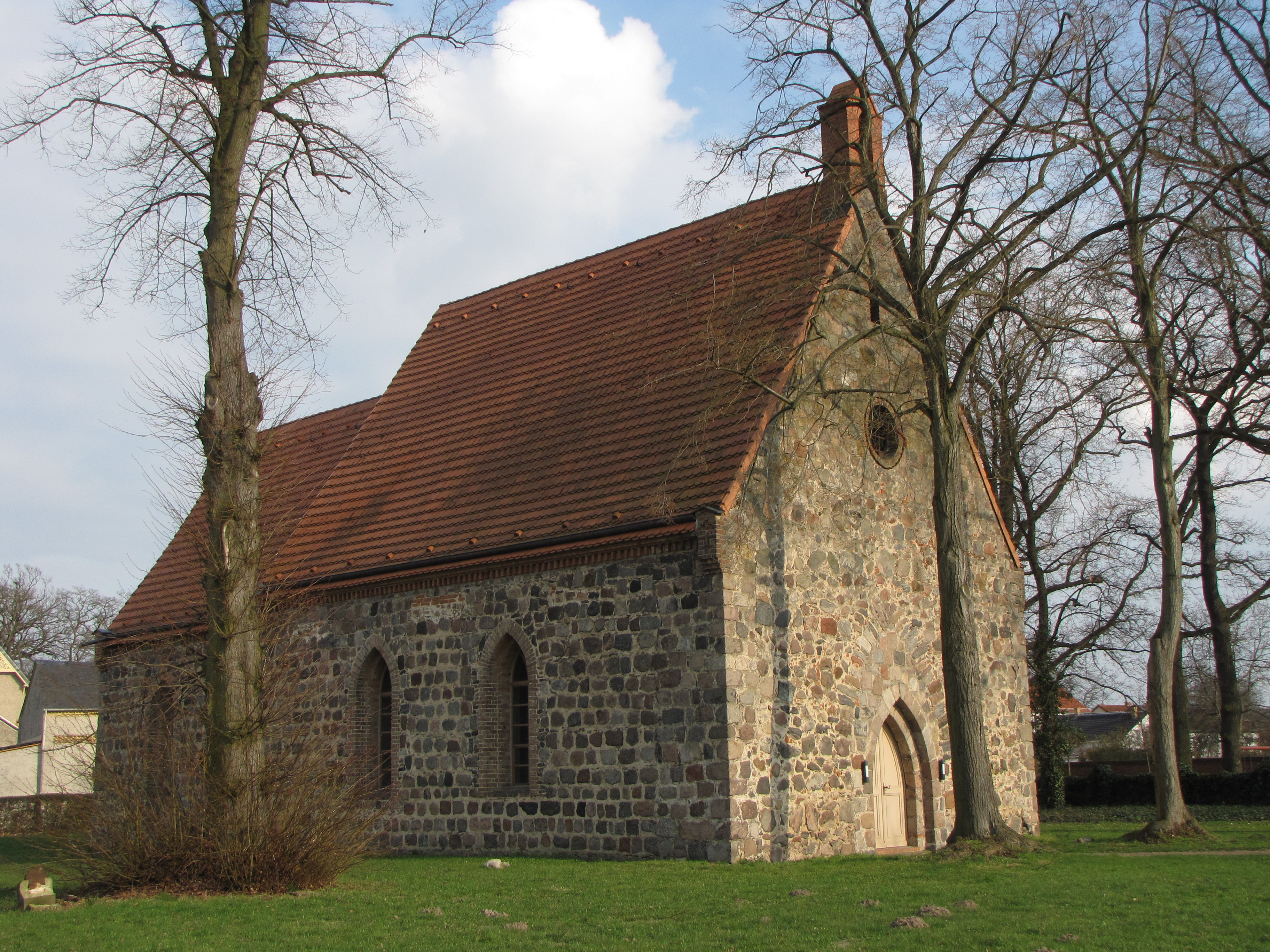 Dorfkirche Brusendorf, Stadt Mittenwalde, Landkreis Dahme-Spreewald, Brandenburg, Deutschland